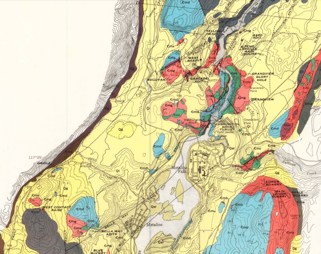 Metaline District geologic map